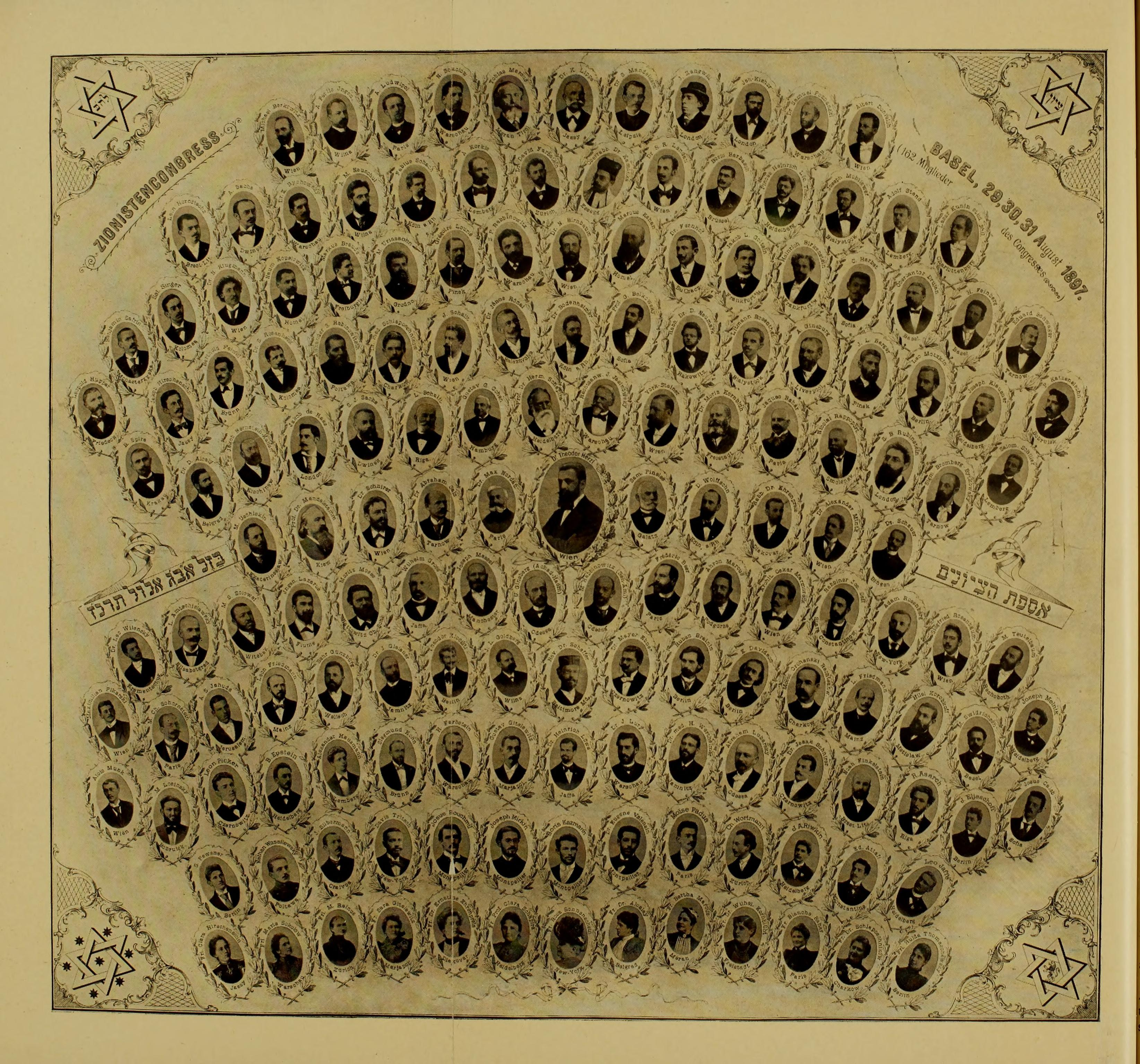 Portraits of the first world zionist congress delegates: Zionistencongress, Basel, 29,30,31 April 1897